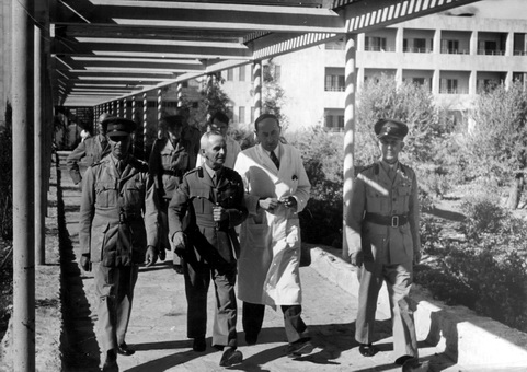 Dr. Yaski accompanies the British army doctors on a visit to the Hadassah Medical Center